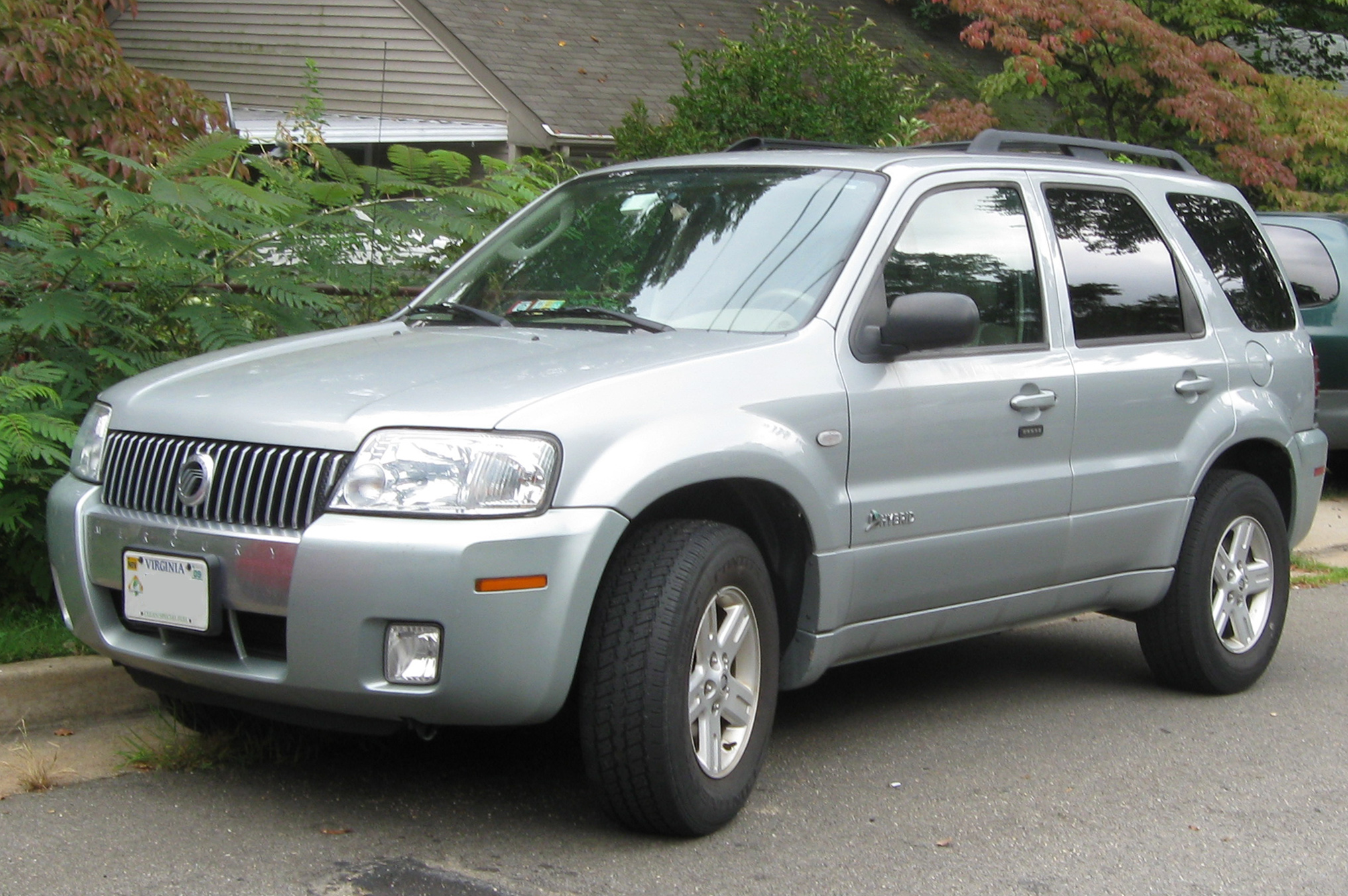 2005-2007 Mercury Mariner Hybrid photographed in Fairfax, Virginia, USA.